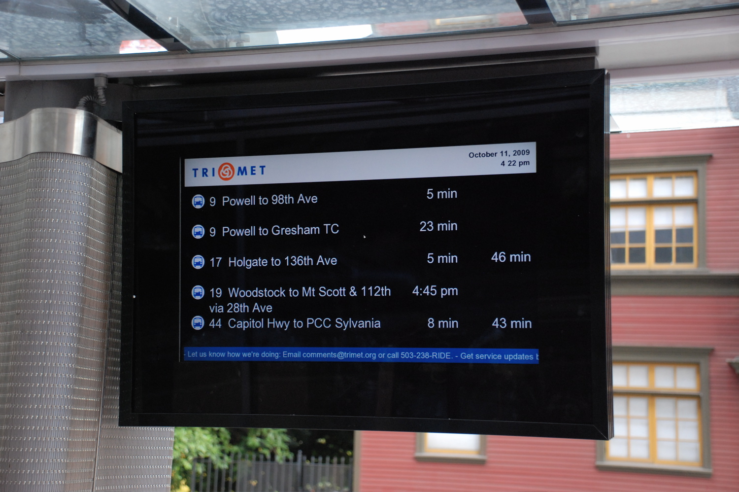 An electronic reader board, or digital sign display, at a stop on the Portland Transit Mall, in Portland, Oregon. Using data from a GPS-based vehicle tracking system, it is giving real-time information on the approximate waiting times until arrival of the next one or two trips on each of the four TriMet bus routes serving this particular stop. These new displays came into use in September 2009, replacing old CRT monitors taken out of use in January 2007.